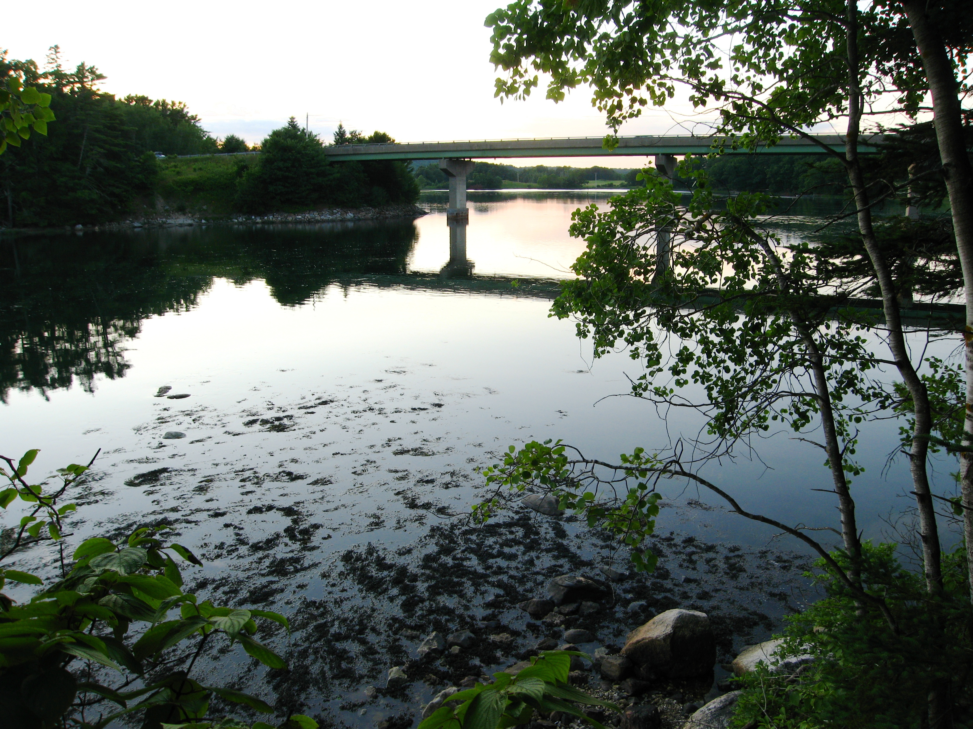 Sunset over the Damariscotta River, as viewed from the Whaleback Shell Midden State Historic Site in Maineen.